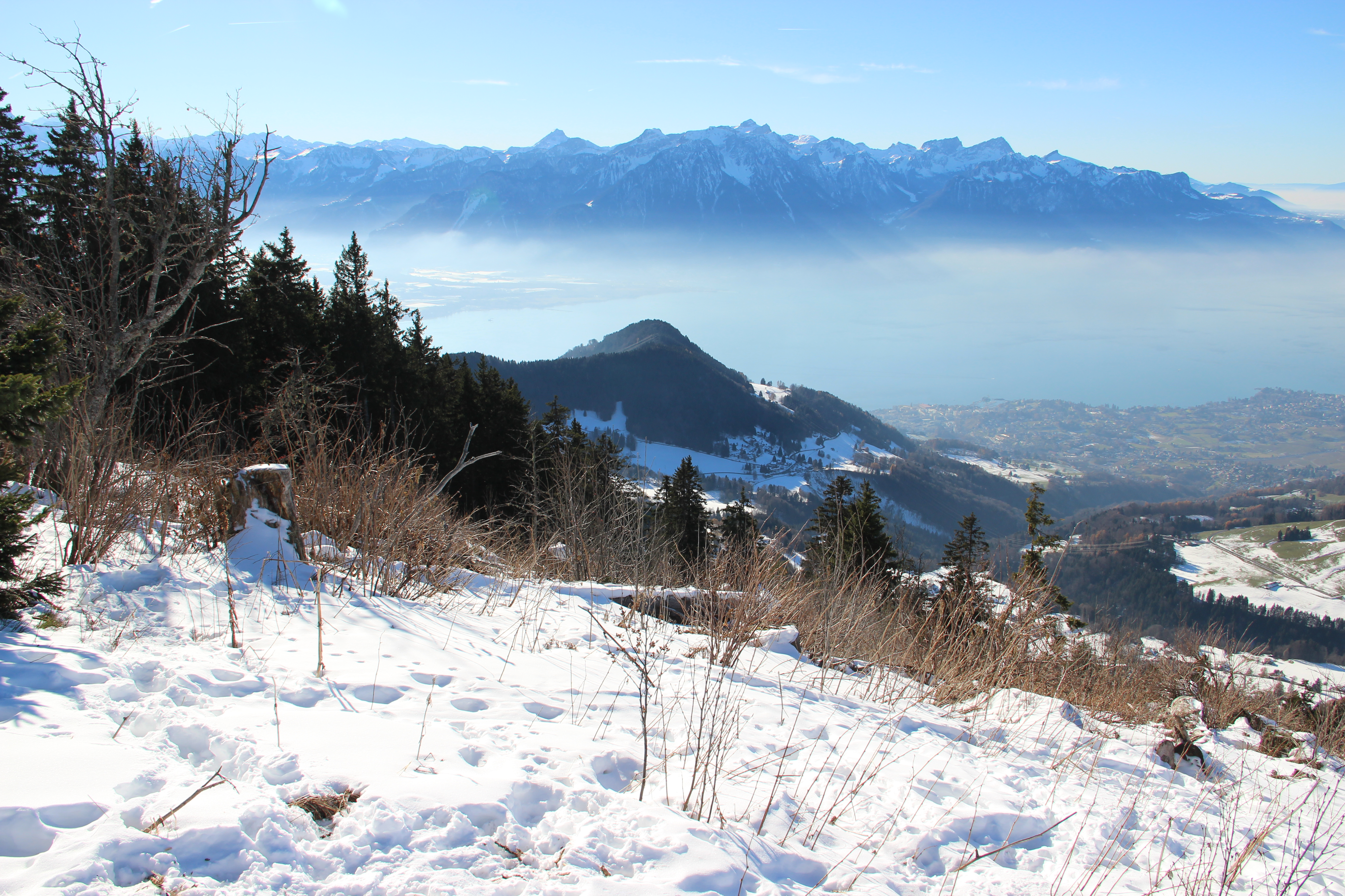 Scenic view from Le Folly